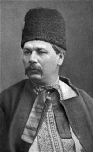 Marko Kropyvnytsky